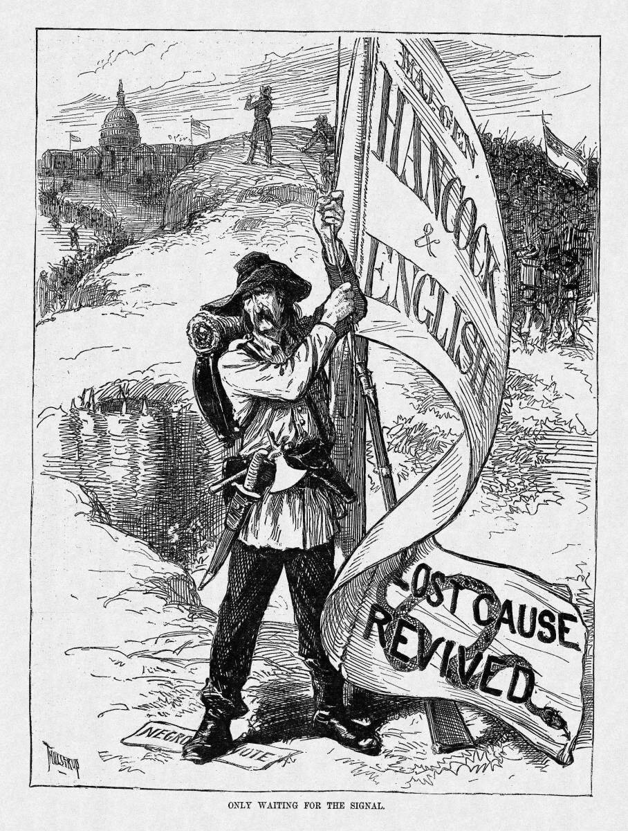 A cartoon depicts a rebel soldier waiting for Democrats to retake the White House.